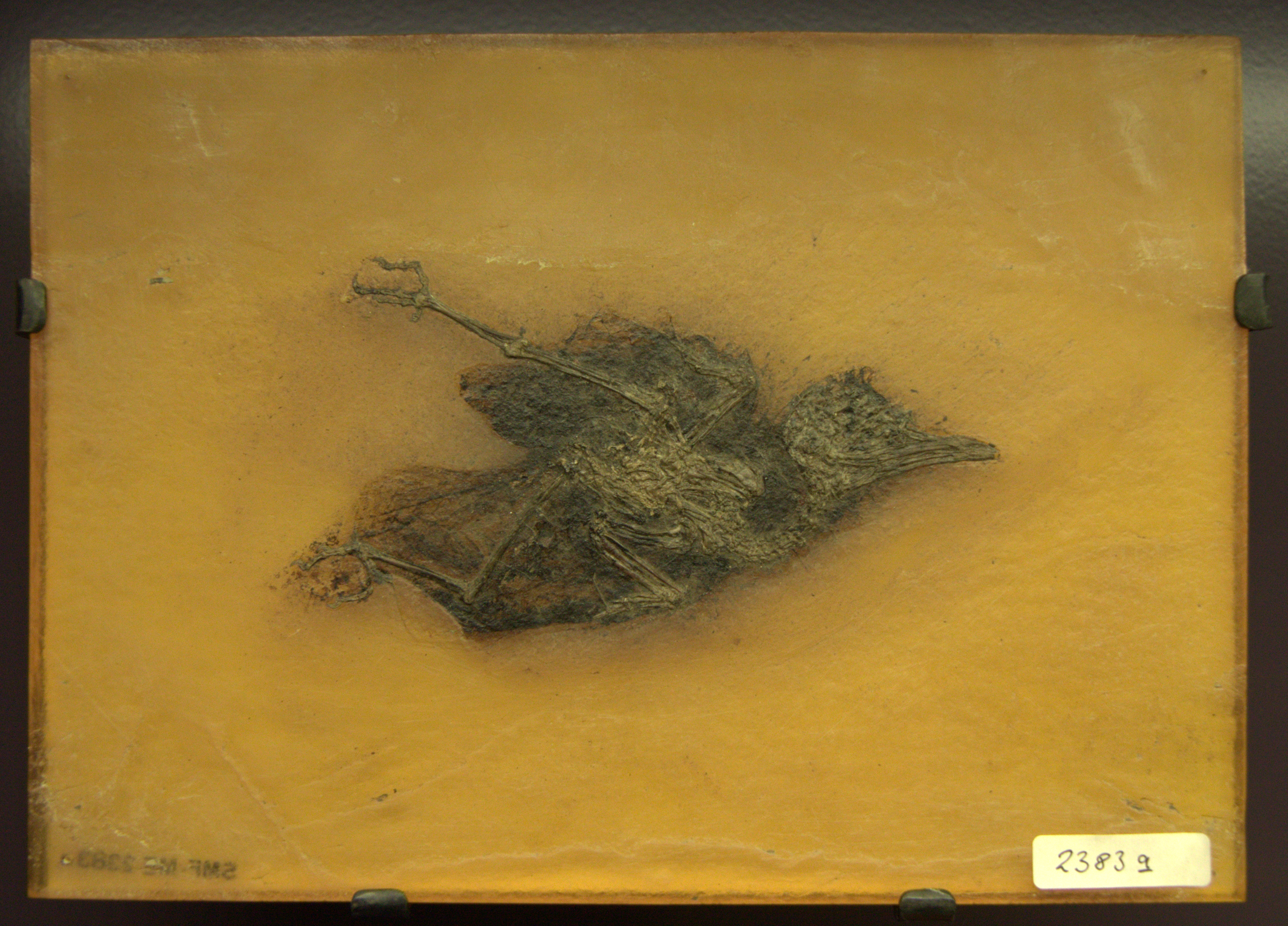 Oiseau forestier fossilisé. The making of this document was supported by Wikimédia France. (Submit your project!)